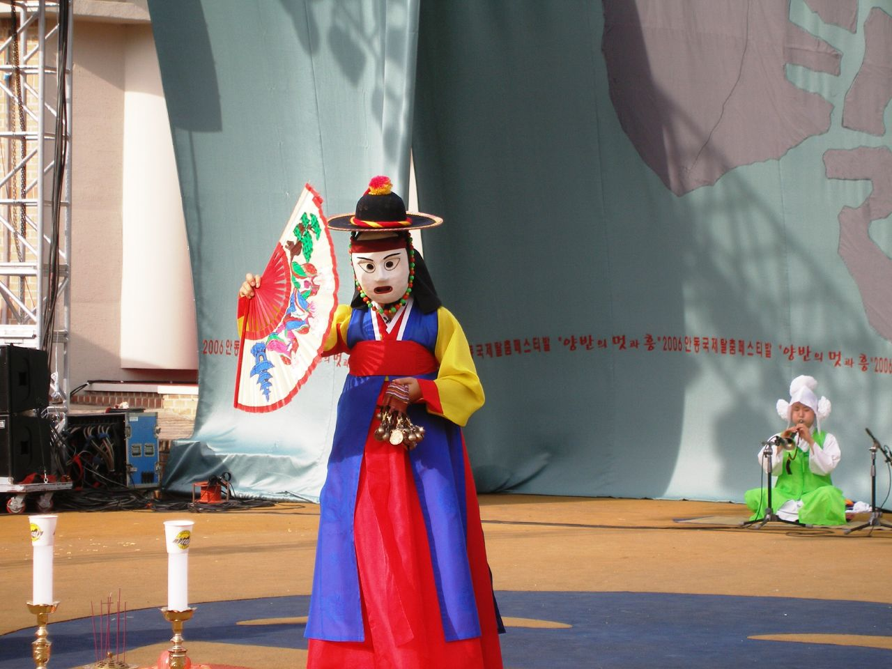 Eunyul talchum, a Korean mask dance originated in Eunyul, Hwanghae Province, now North Korea